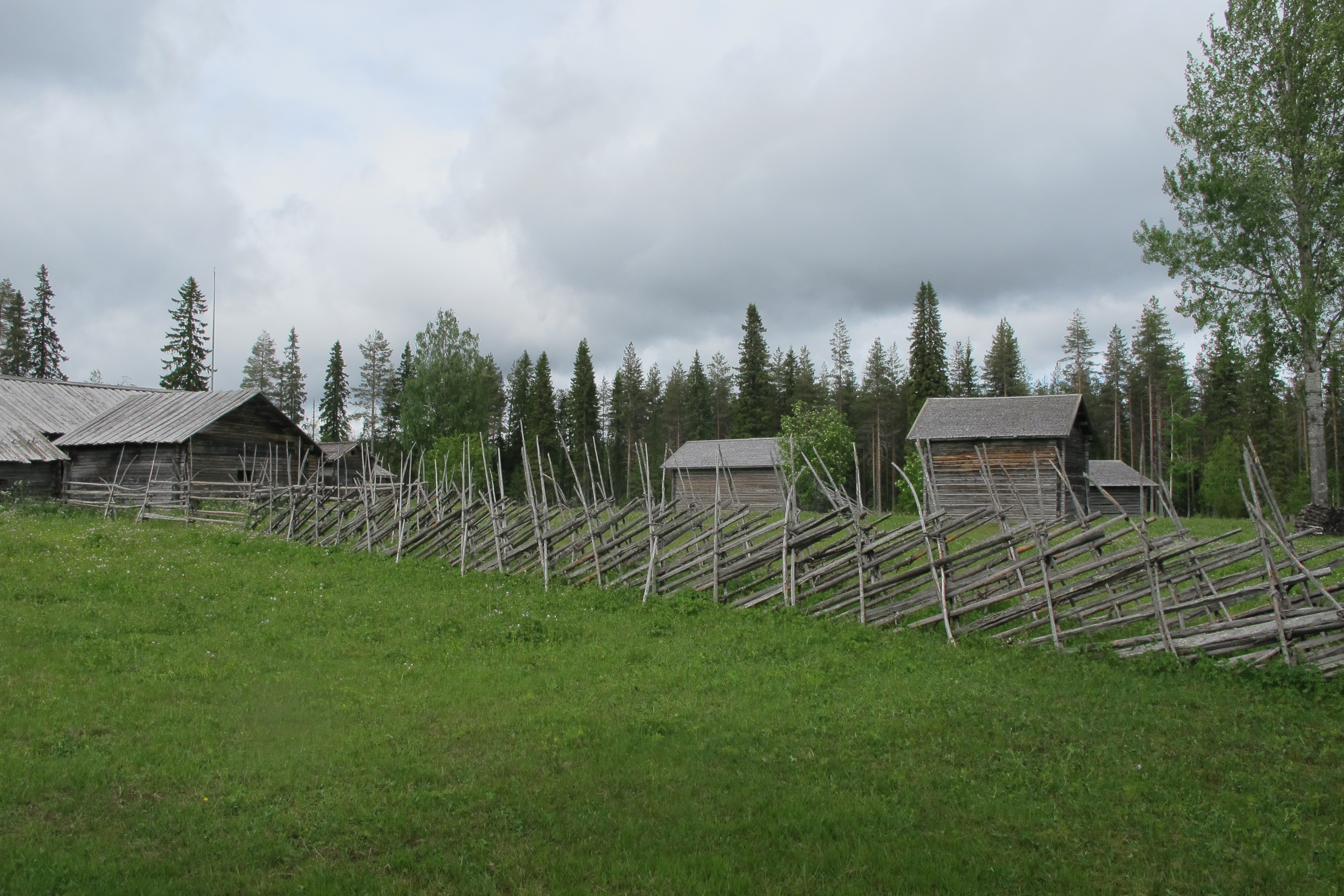 Kaunislehto house museum